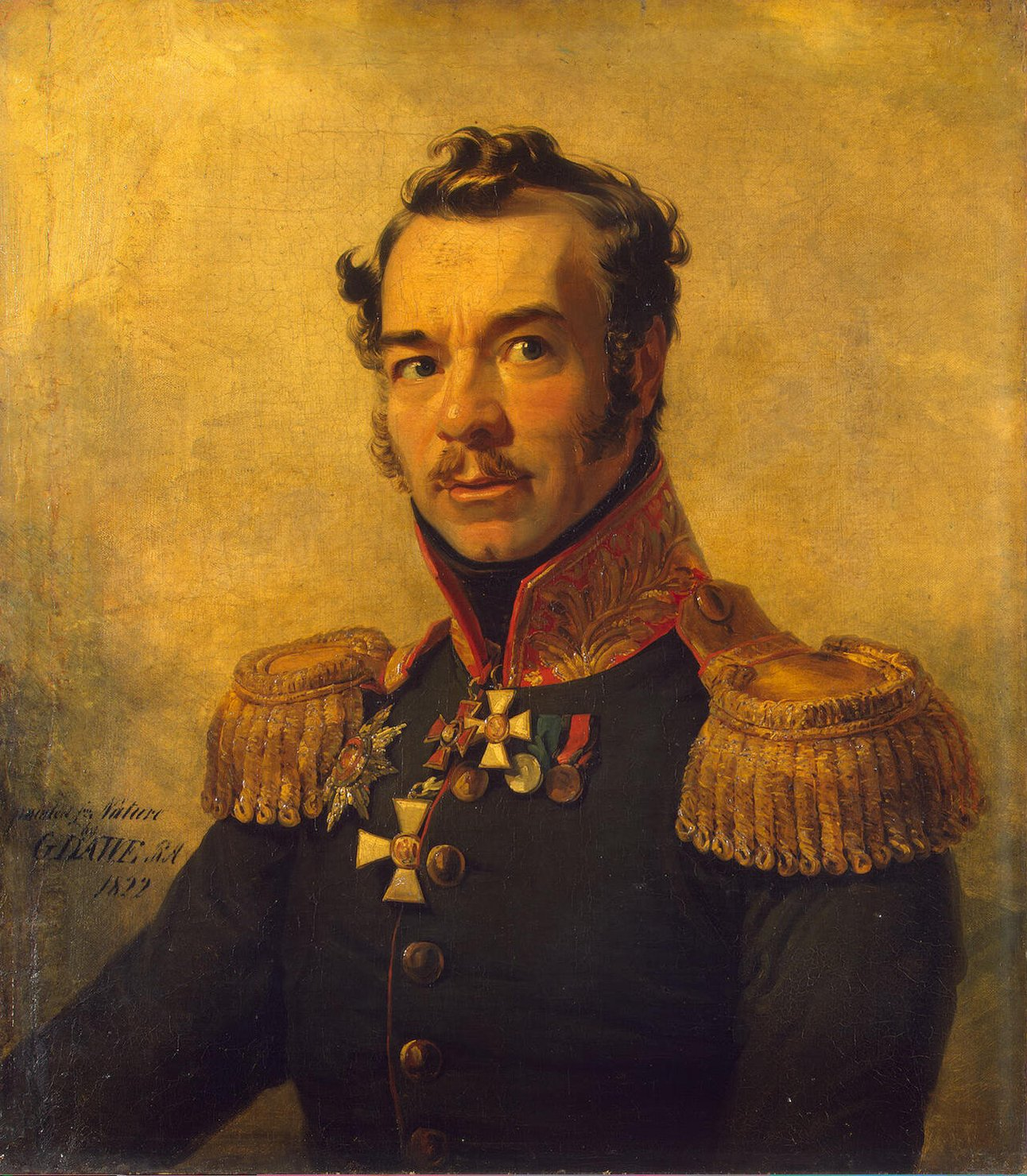 Dmitry Mihailovich Yuzefovich (1777 – 25.09.1821) russian general